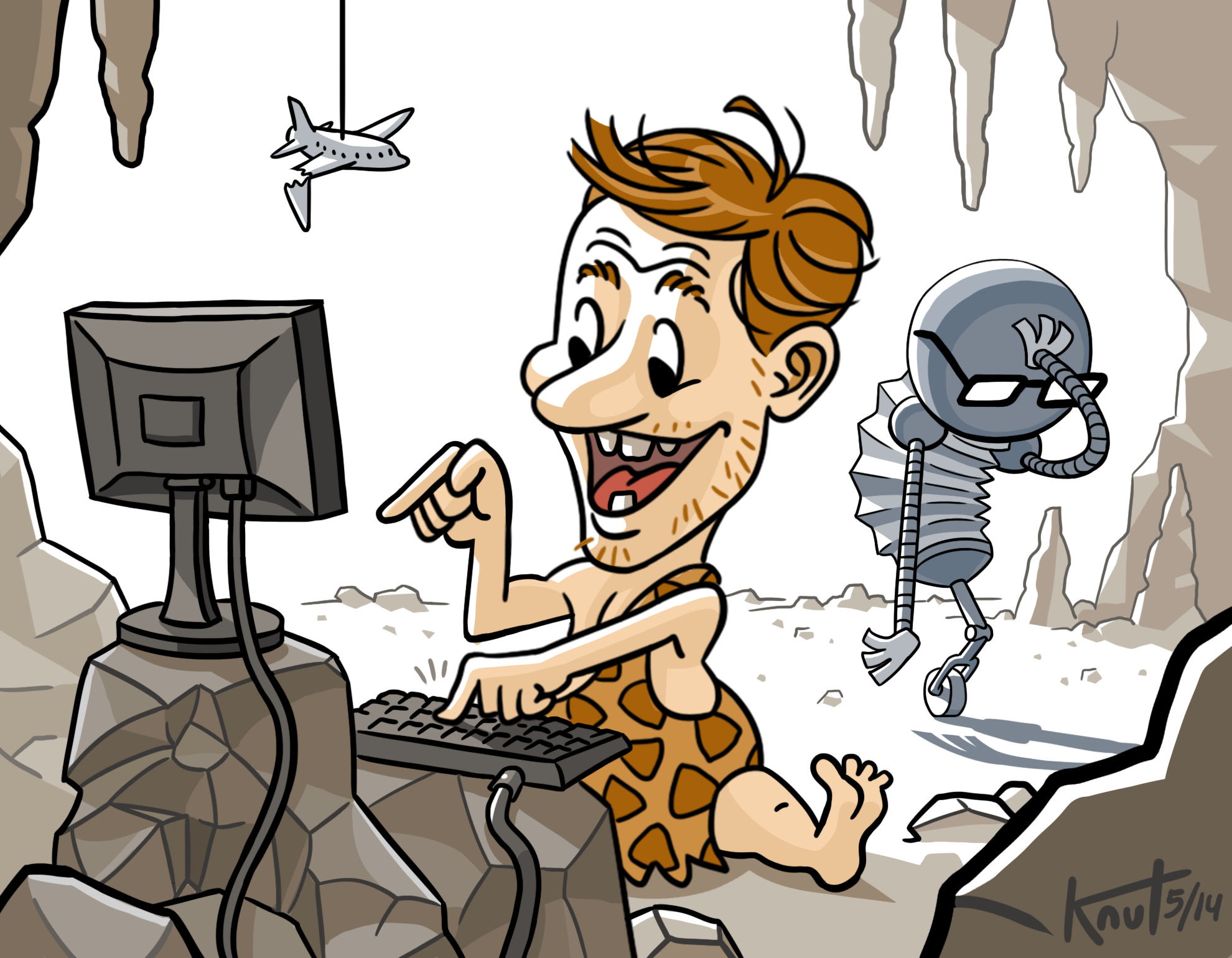 An illustration of Brady Haran and CGP Grey (from the Hello Internet podcast) represented as a caveman and a robot, respectively. The caveman (Brady Haran) is using the hunt and peck typing technique while using a computer, and the robot (CGP Grey) is making a facepalm gesture. There is also a model airplane with a broken wing hanging from the ceiling, representing the "Plane Crash Corner" segment of the podcast. This particular fan art was discussed on episode #13 of the podcast (at timestamp 34:35).